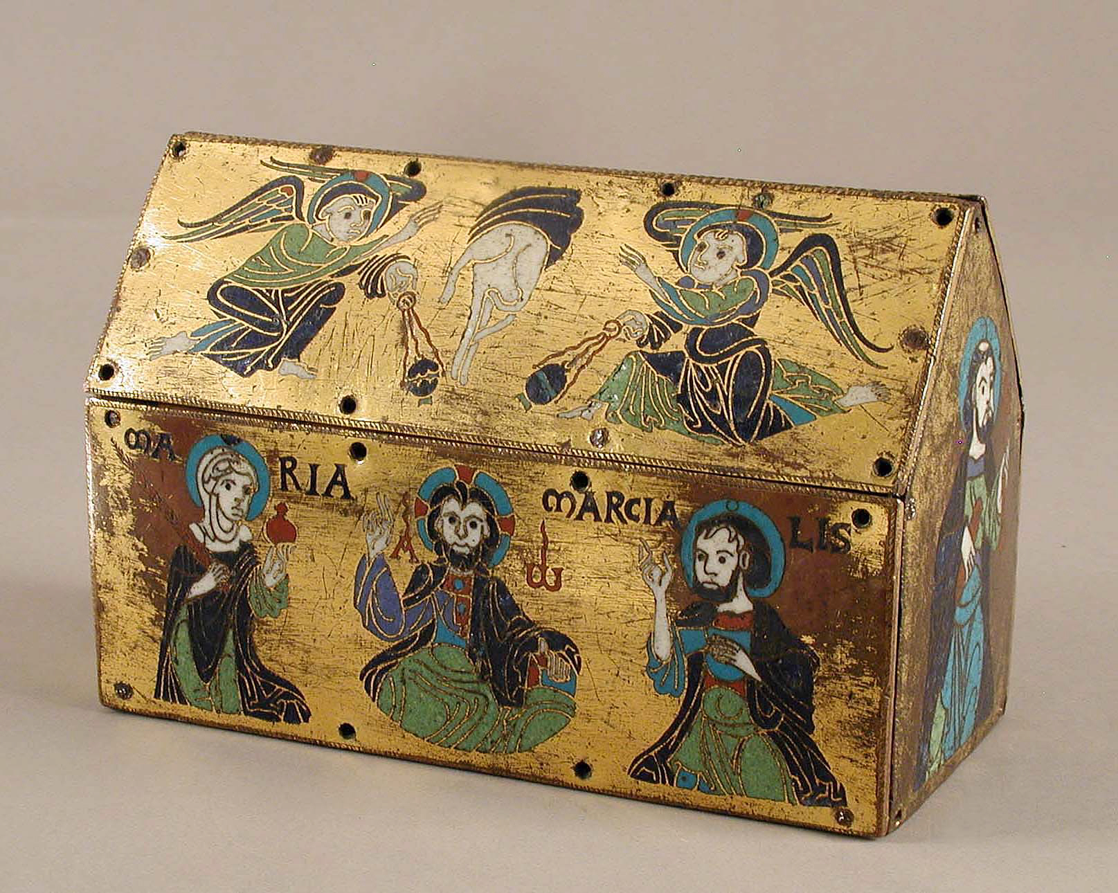 French; Chasse; Enamels-Champlevé